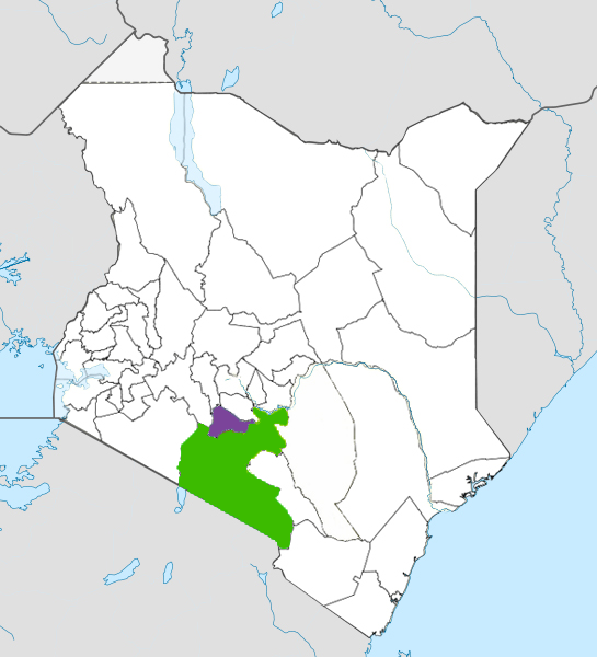 Kiambu County in Nairobi Metro Kiswahili: Kaunti ya Kiambu kwenye Nairobi Metro